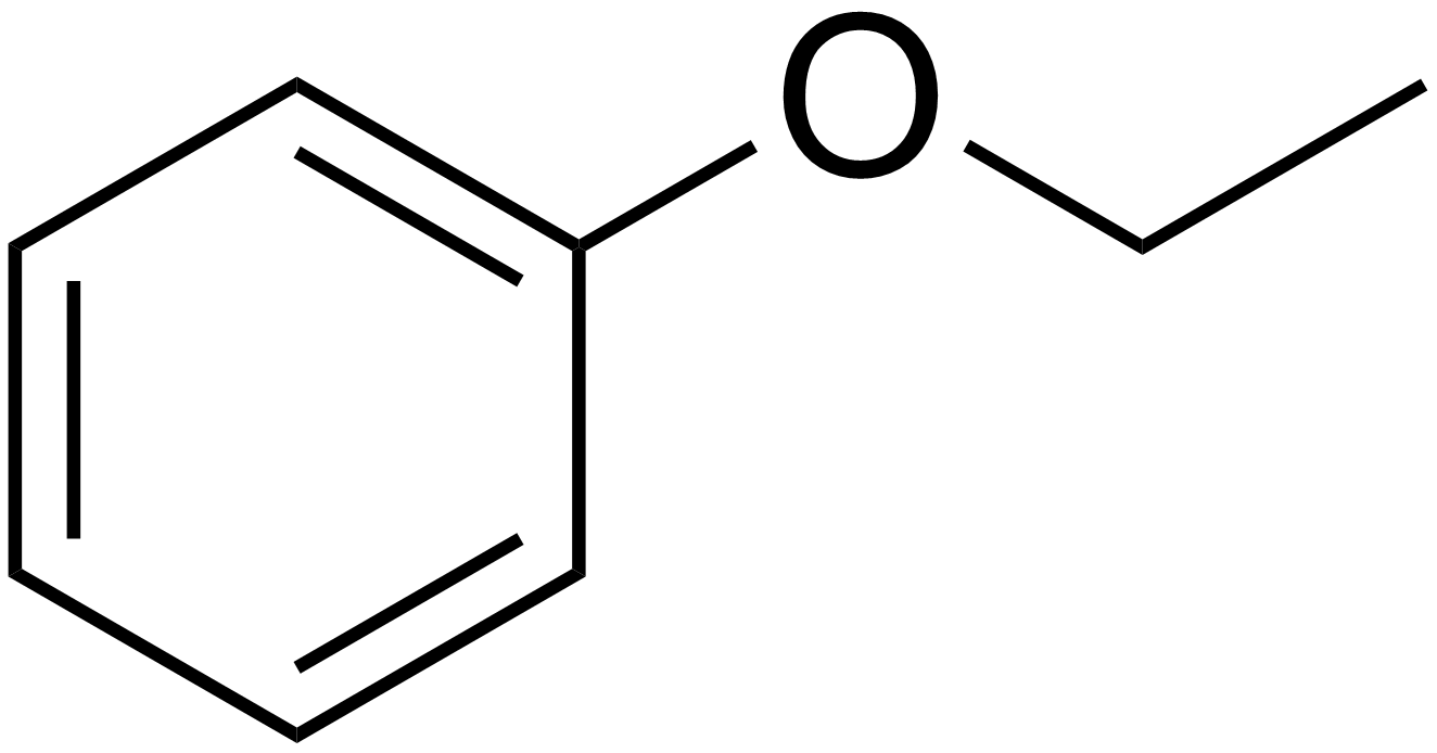 chemical structure of ethyl phenyl ether